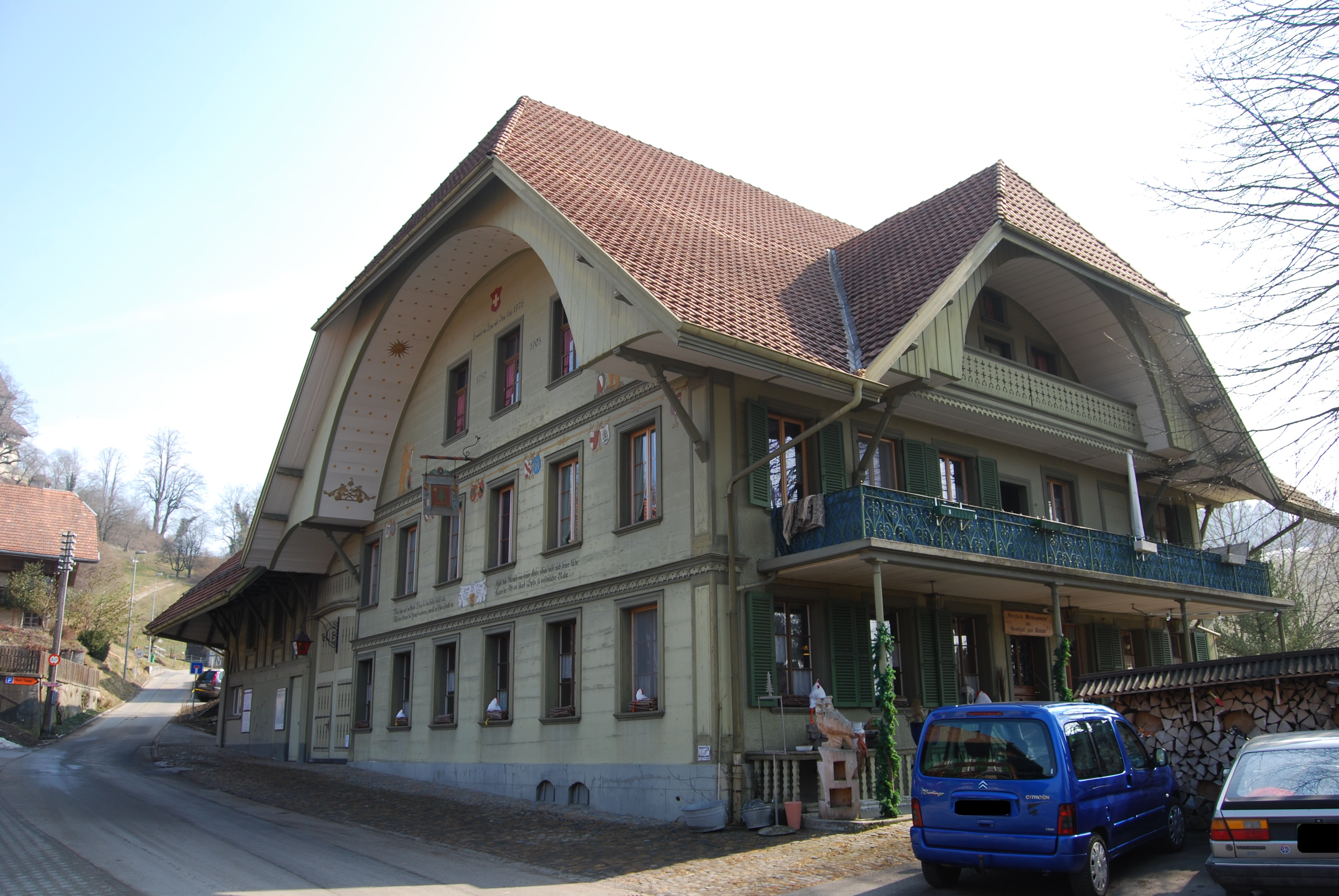 Trachselwald, canton of Bern, SwitzerlandEsperanto: Trachselwald, Kantono Berno, Svislando